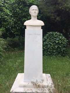 Bust of Sophia Schliemann ("Sotiria" Hospital of Pulmonary Diseases).